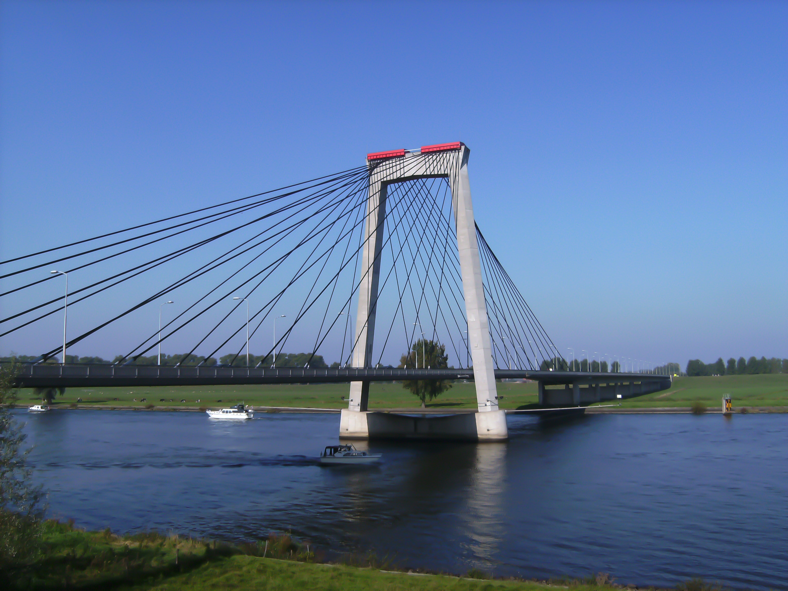 Cable-stayed bridge near Heusden